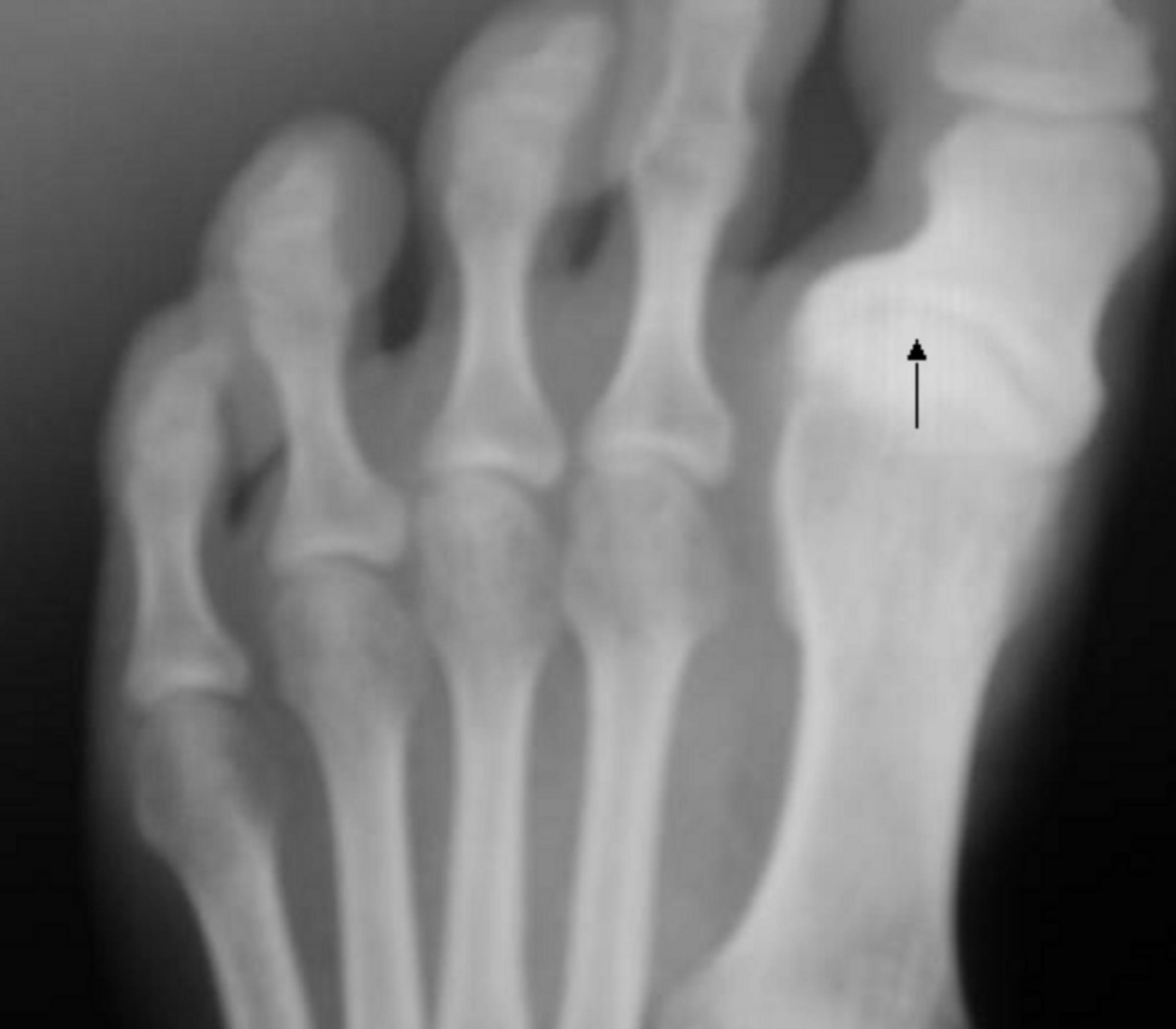 Radiography of the left foot of a Stickler syndrome patient with an anteroposterior at age of 17 years foot radiograph showed progressive hallux varus with marked osteoarthritis of the base of the first toe.